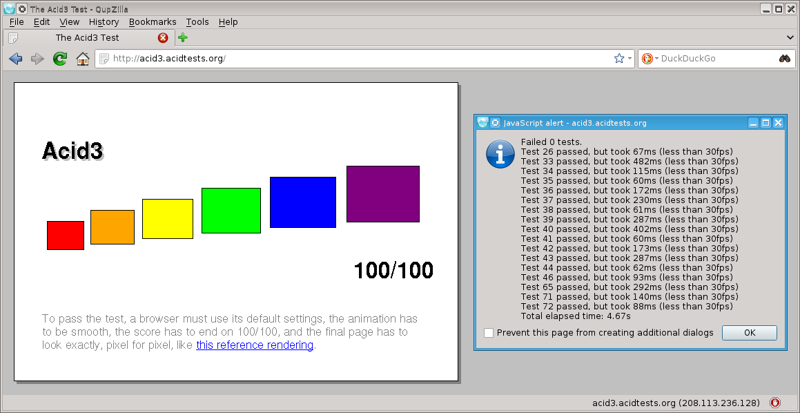 Screenshot of QupZilla v1.6.6 rendering Acid3 test.